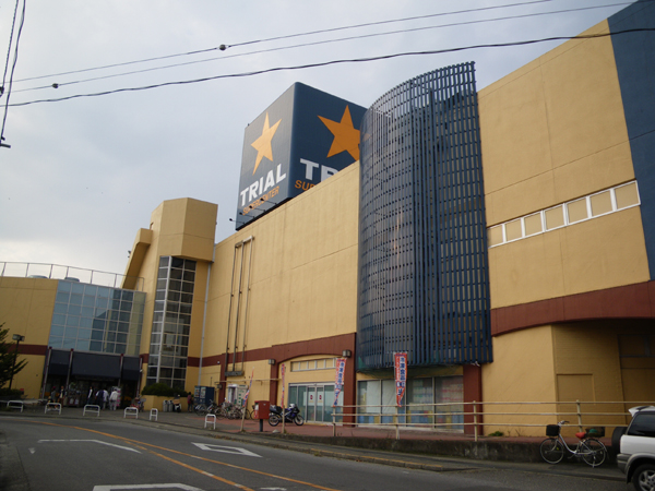 Supercenter TRIAL. Ōtawara, Tochigi, Japan.